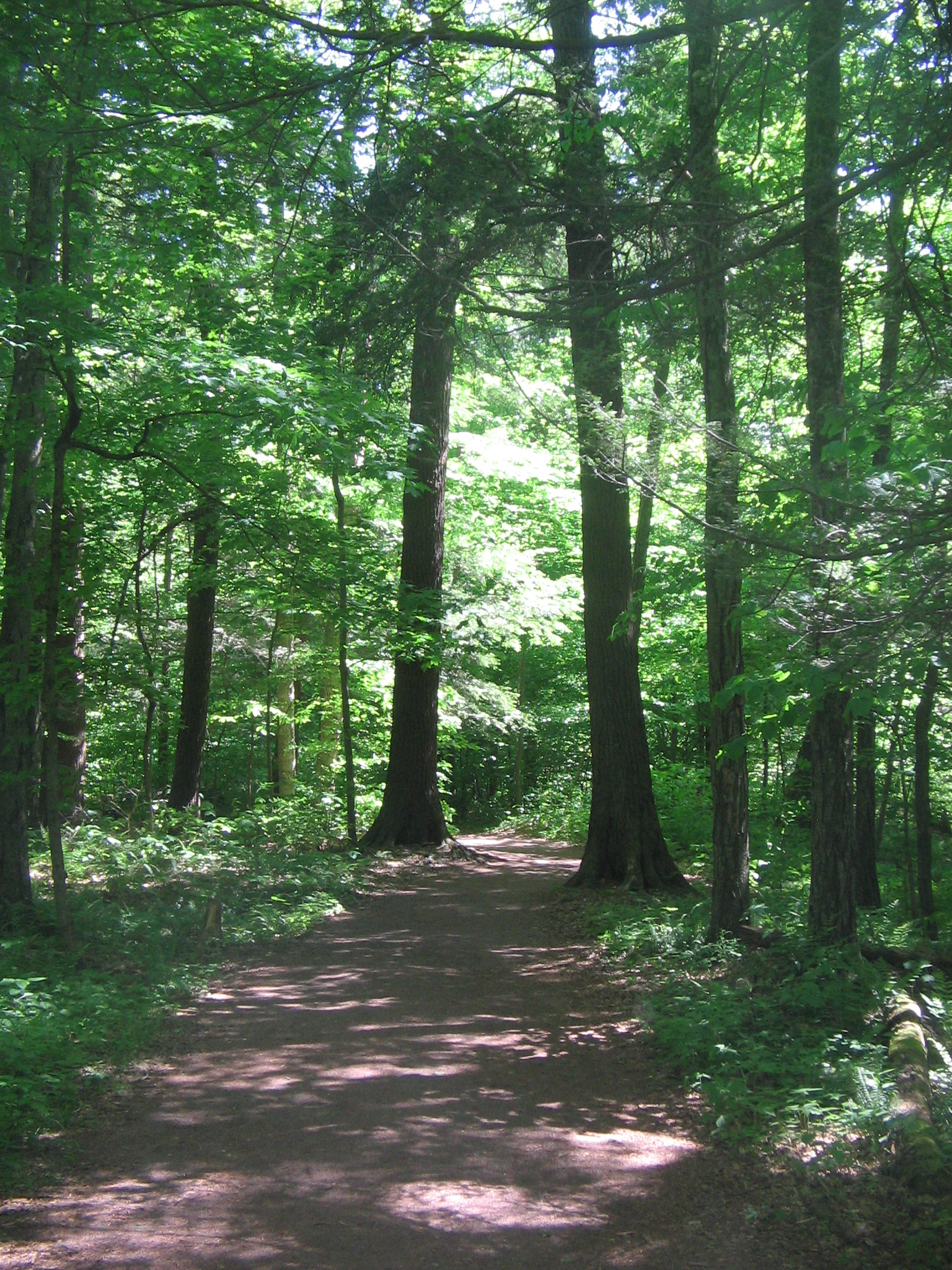 Waterfalls Trail along Kettle Creek in Ricketts Glen State Park, Luzerne County, Pennsylvania, USA.